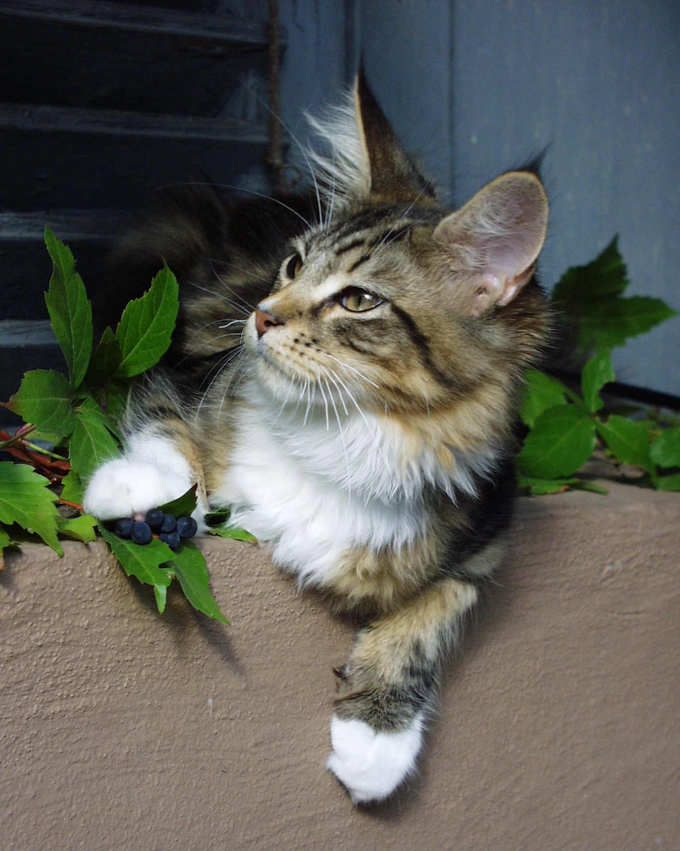 a young Maine Coon male in black(brown)blotched tabby/white, FIFe-EMS-Cod: MCO n 09 22